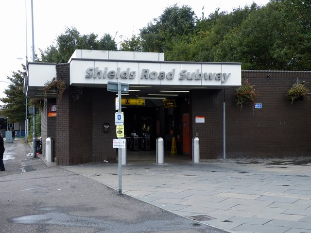 Shields Road subway station On Scotland Street at Shields Road.